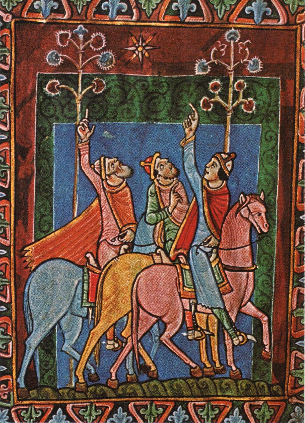 The Journey of the Magi, from St. Albans Psalter, about 1130, Alexis Master. Tempera and gold on parchment. Dombibliothek Hildesheim